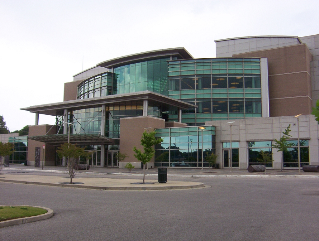 Memphis Public Library on Poplar Avenue in Memphis, Tennessee (view 2)